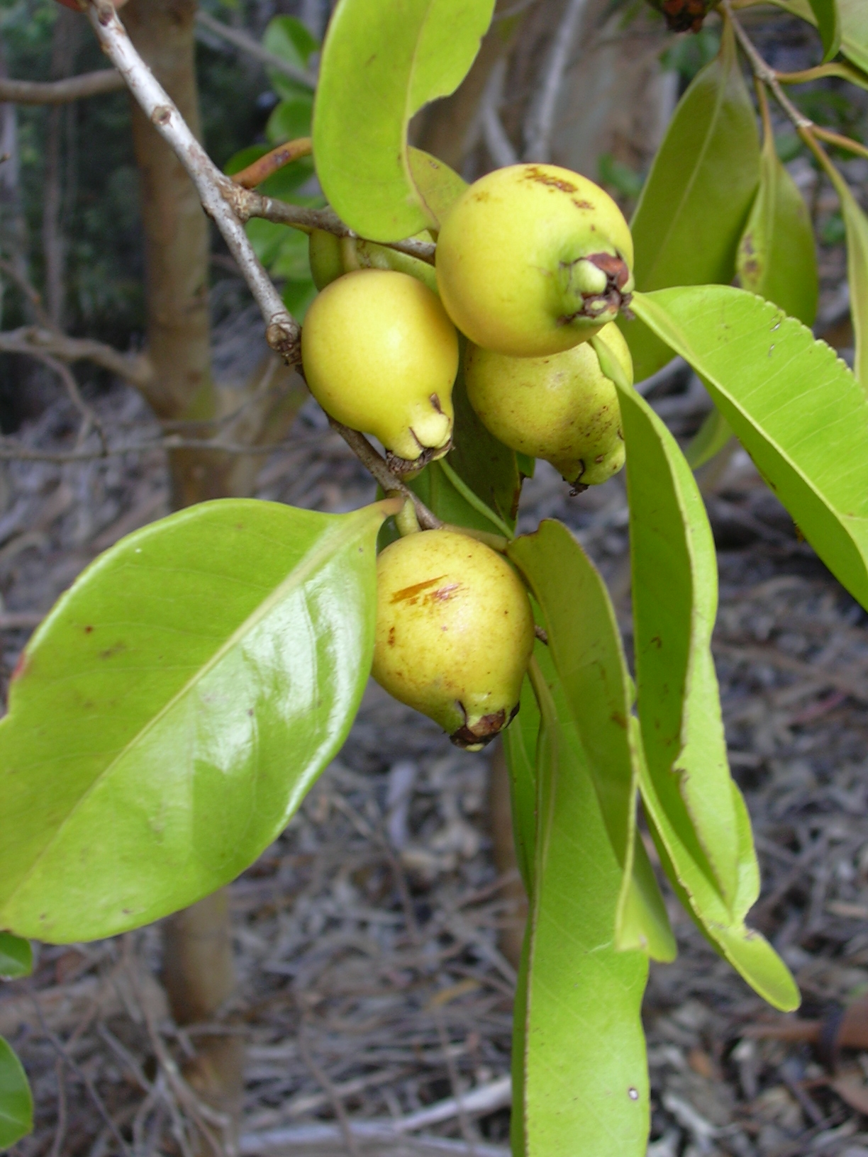 Psidium cattleianum (yellow fruits). Location: Maui, Piiholo